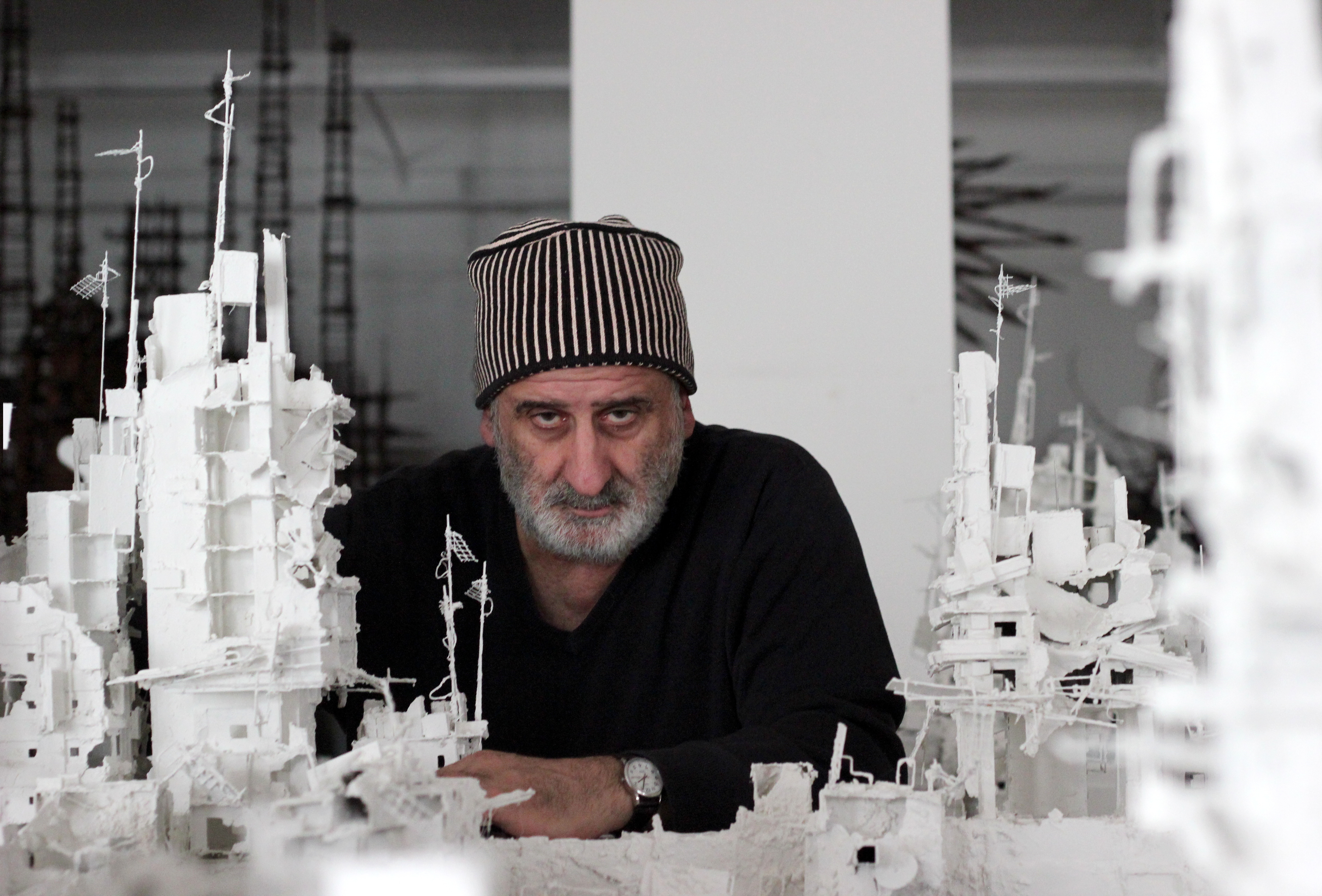 Gerry Judah in his studio, photographed by Raphael Judah, 2014